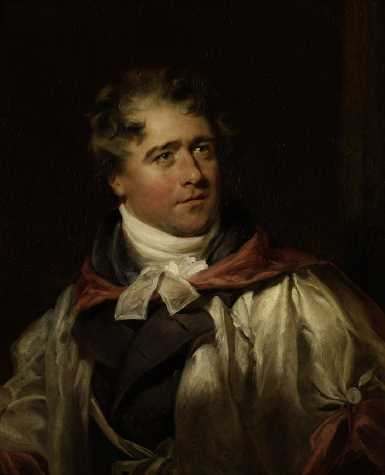 Portrait of Charles Hague (1769–1821), violin player and professor of music at Cambridge University.